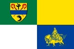 flag of koksijde, belgium